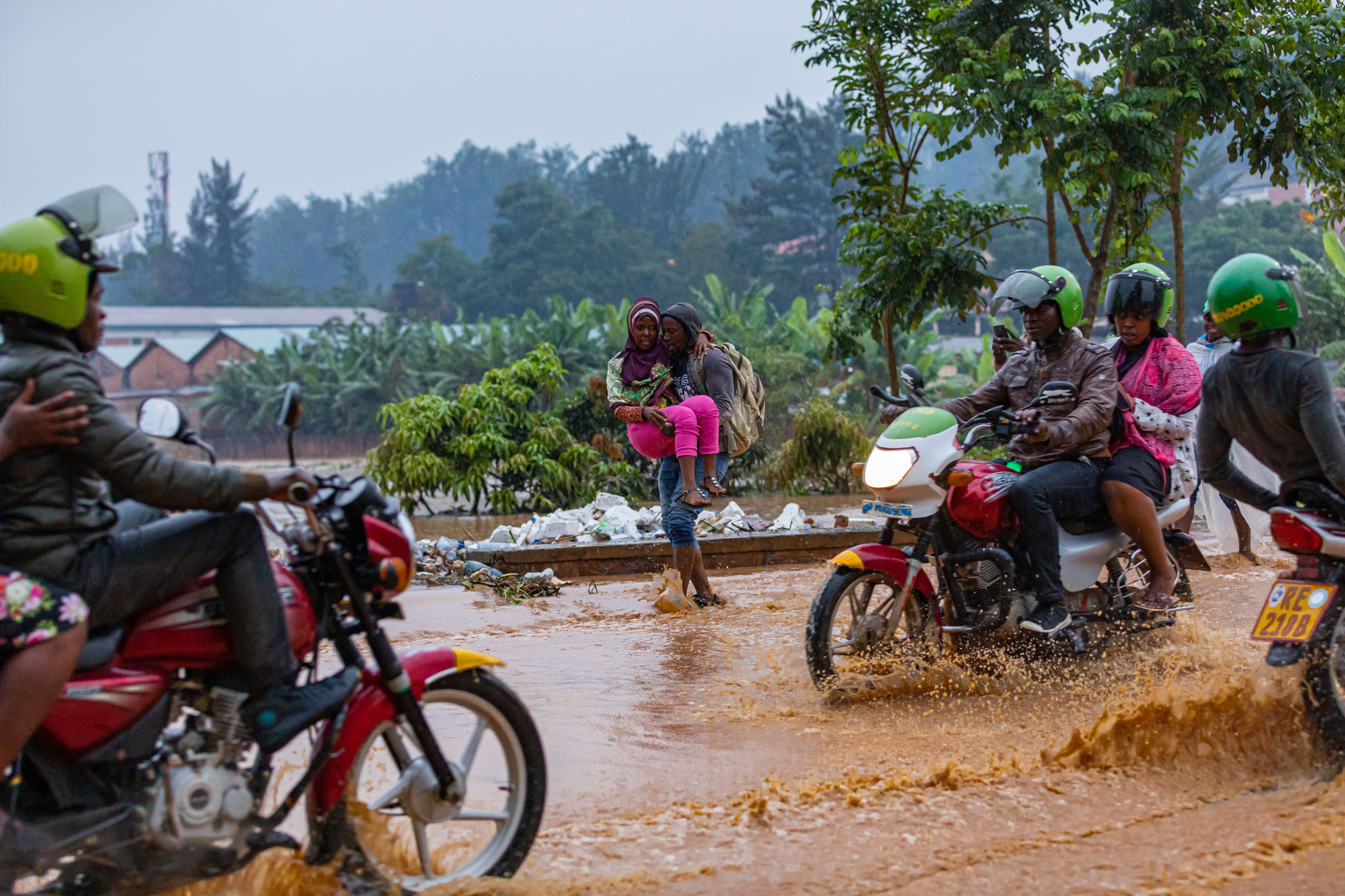 Pedestrians and motorists risk their lives to transport passengers in a flooded road in Kigali on 28 January 2020. Carrying people was one of the ways to transport them past the flooded areas in late January and early February 2020. Emmanuel Kwizera This is an image with the theme "Africa on the Move or Transport" from: Rwanda